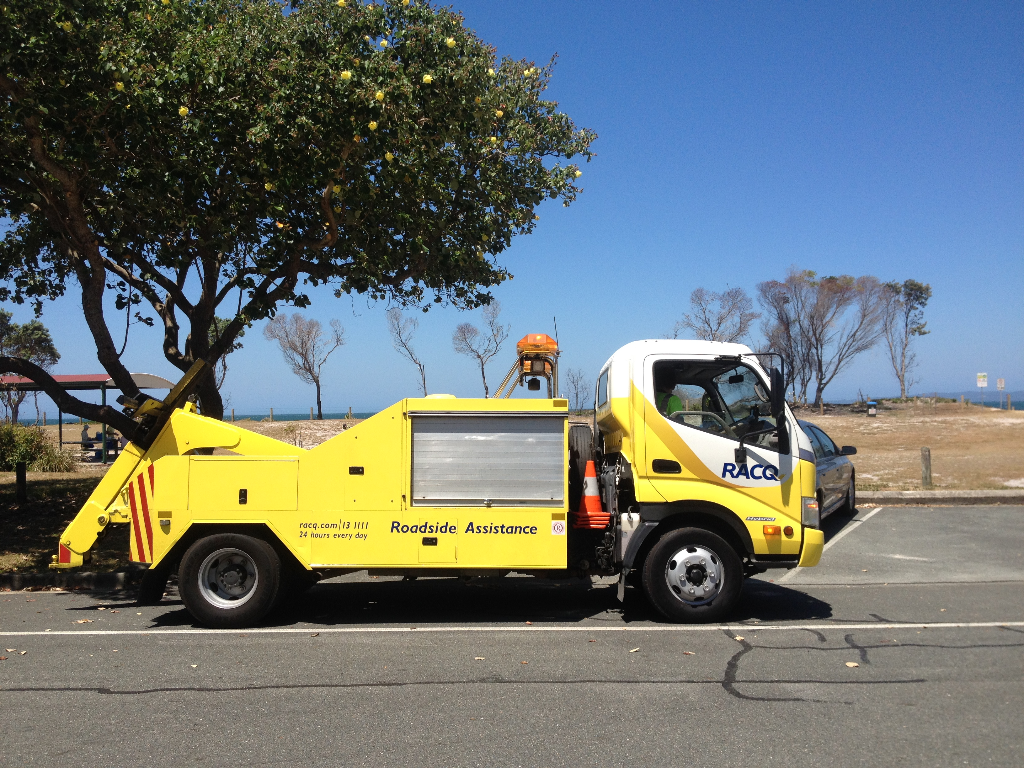 RACQ Roadside Assistance, Queensland, Australia